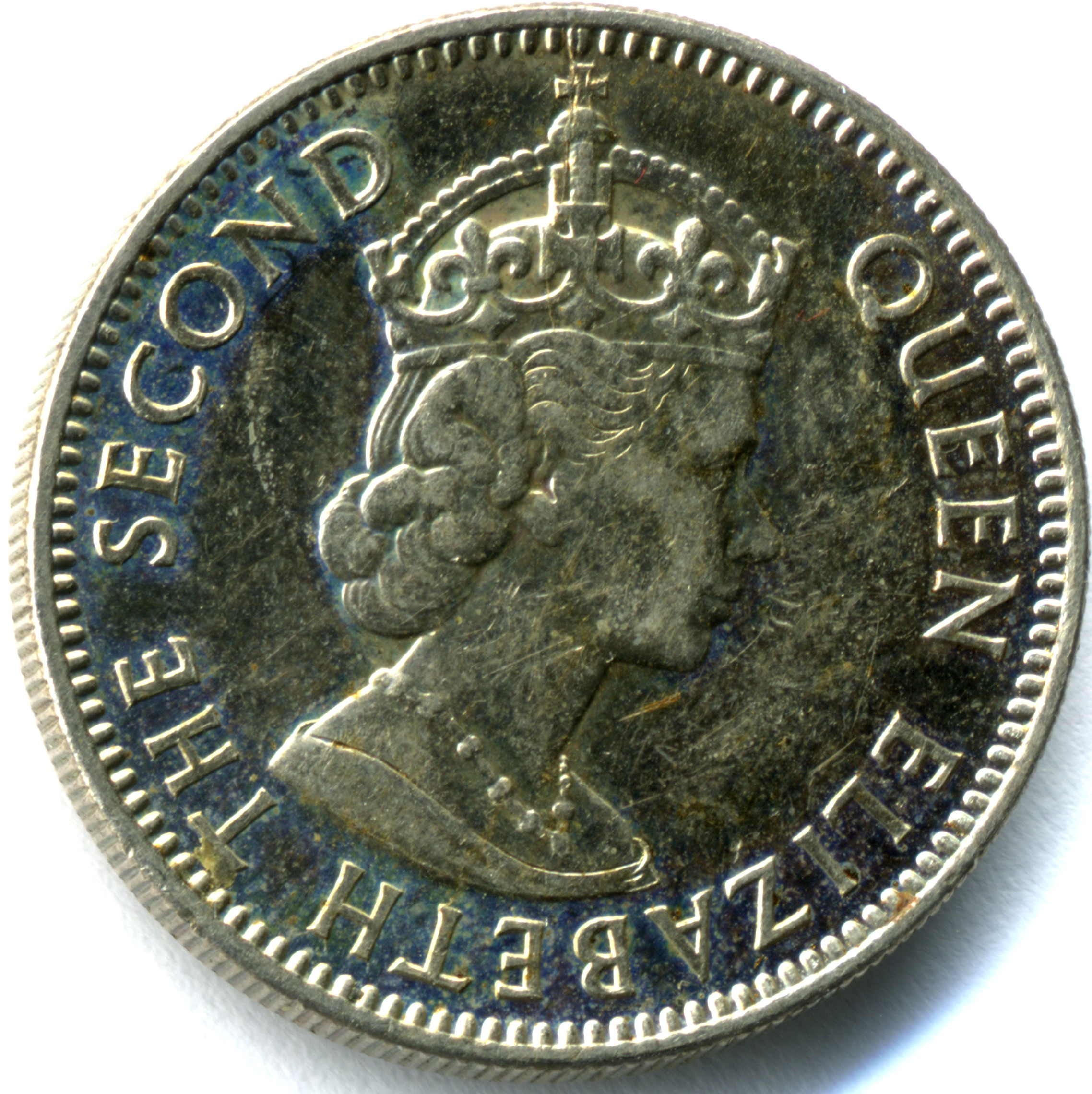 Belize 25 cent coin 2003 obverse